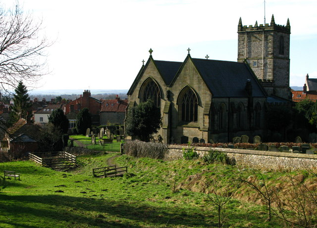 Community Garden at Kirkbymoorside Adjacent to All Saints' Church this Community Garden contains mosaics made by children from the nearby Primary School.